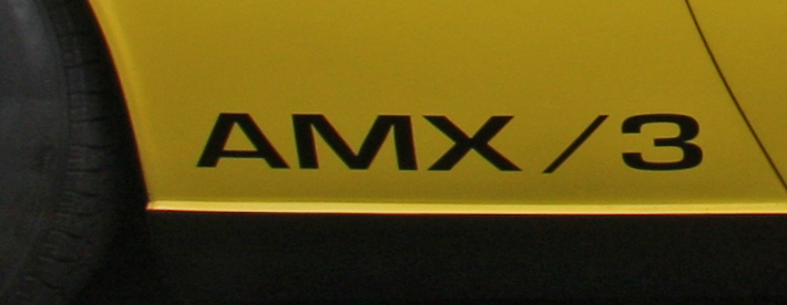 Logo of AMC AMX/3; cropped Version of File:AMC AMX3 Side.jpg